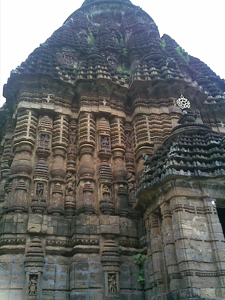 Dharakote jagannath Temple